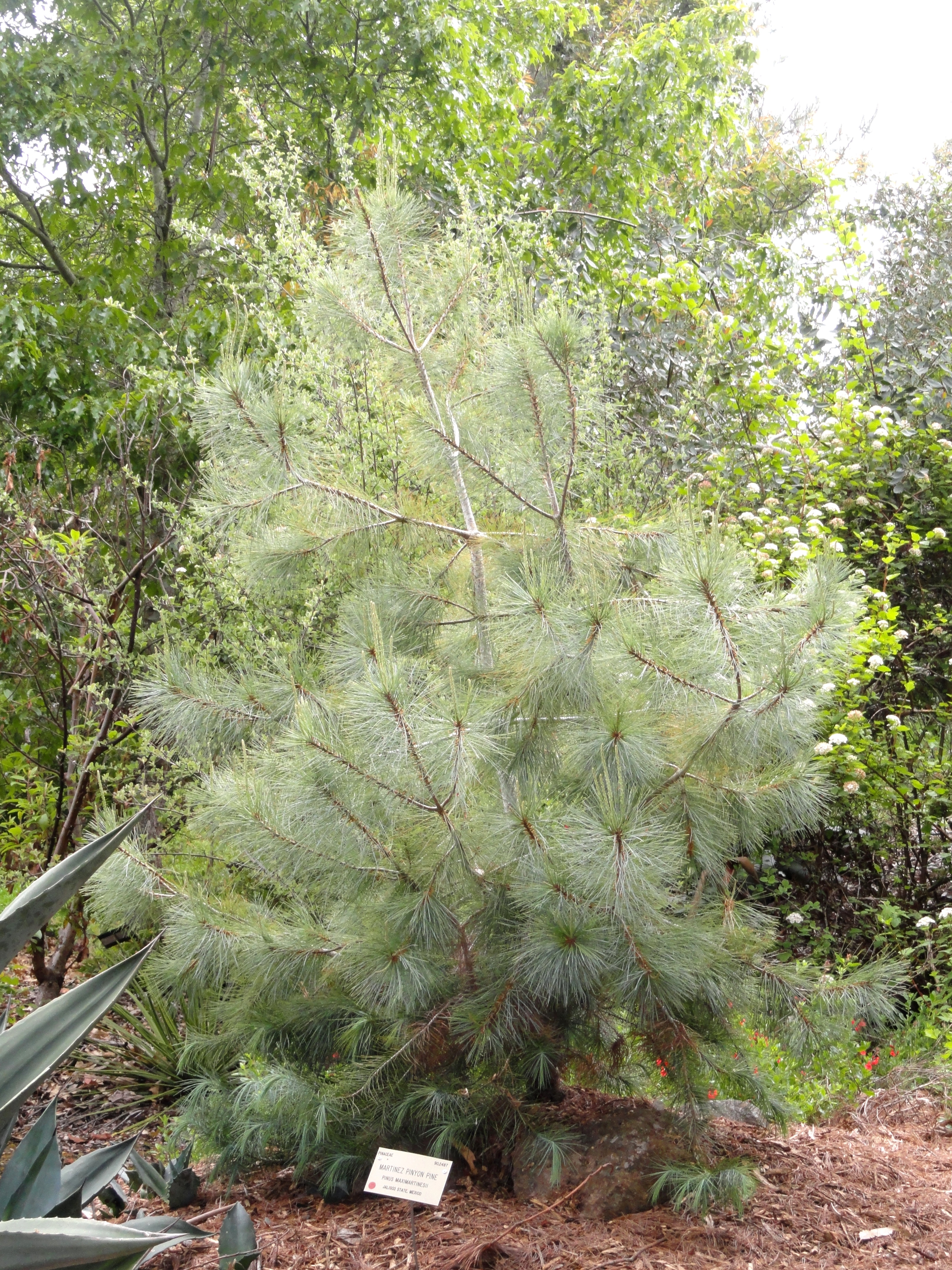 Pinus maximartinezii specimen in the University of California Botanical Garden, Berkeley, California, USA.